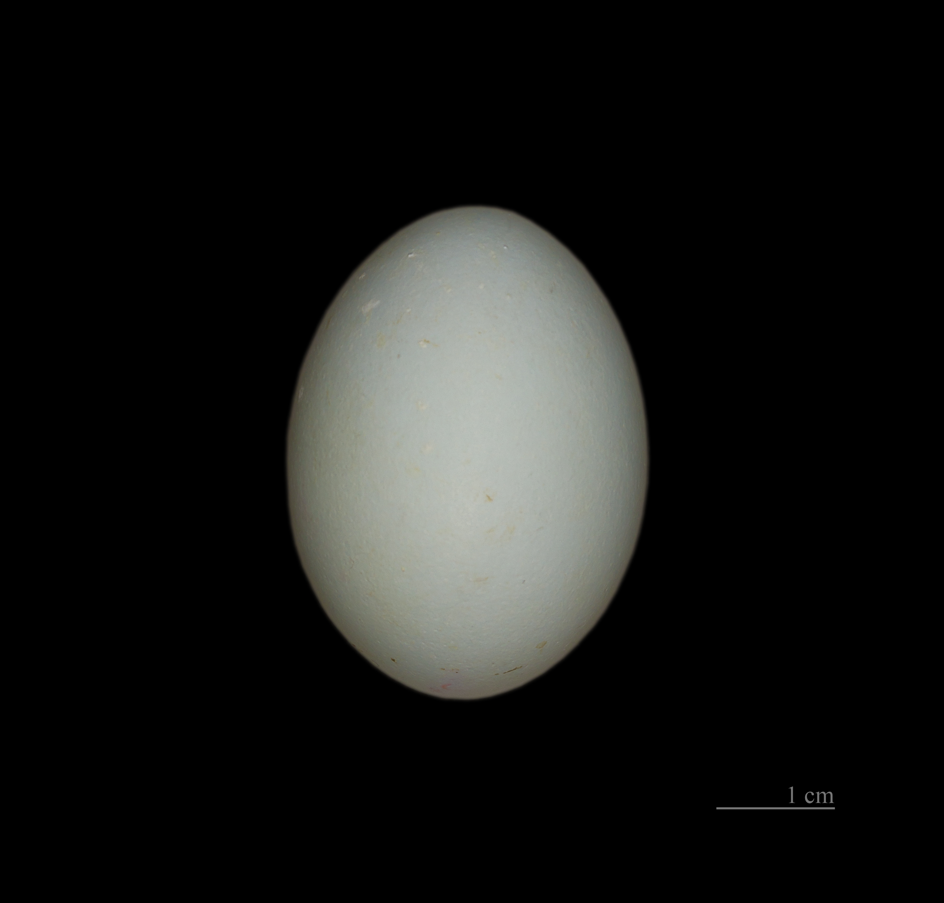 Egg of Striated Heron. Collection of René de Naurois / Jacques Perrin de Brichambaut. Locality: Delta of Senegal, Senegal.